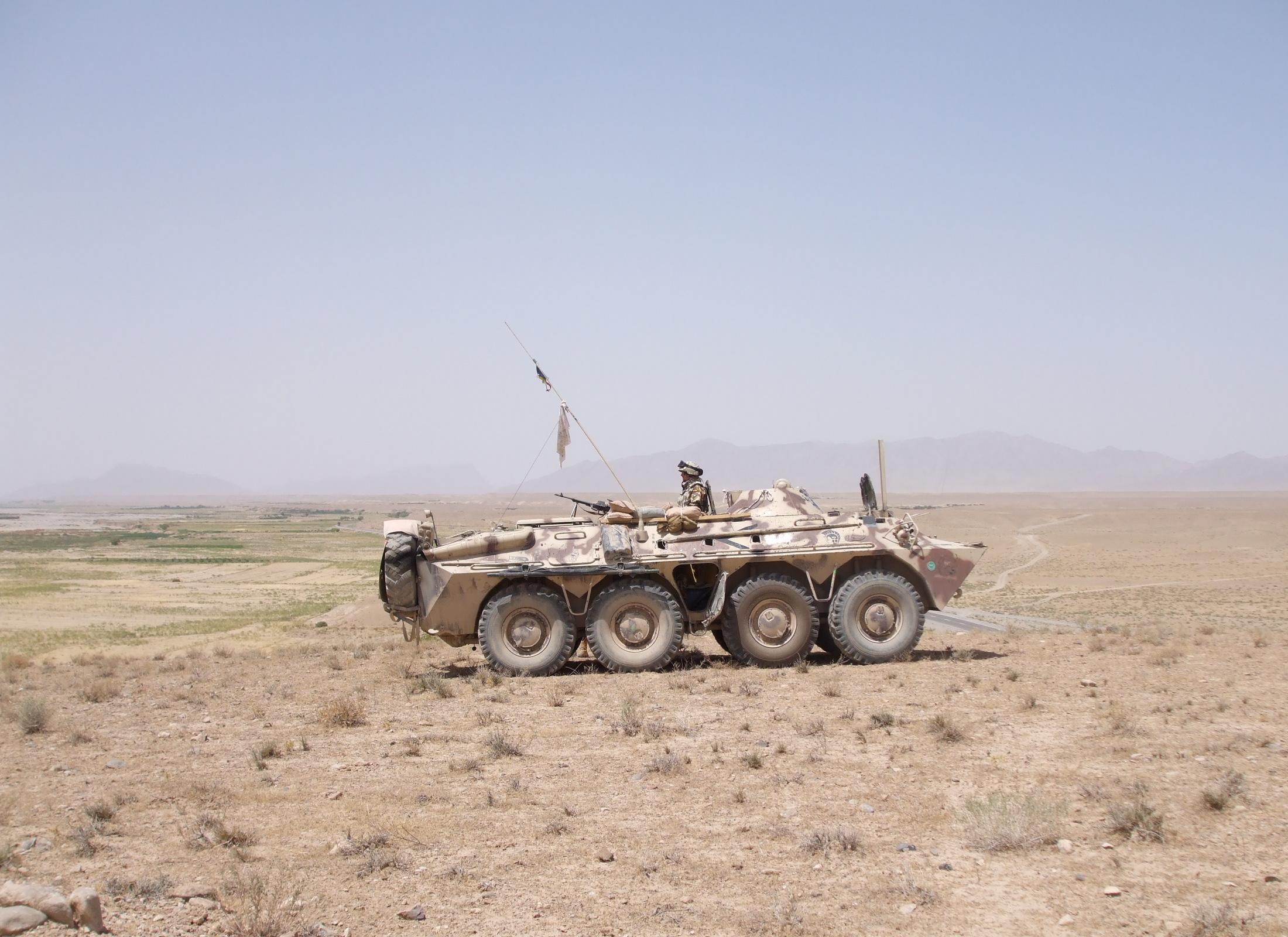 Romanian TAB-77 (based on the soviet BTR-70) in a patrol mission in Afghanistan.